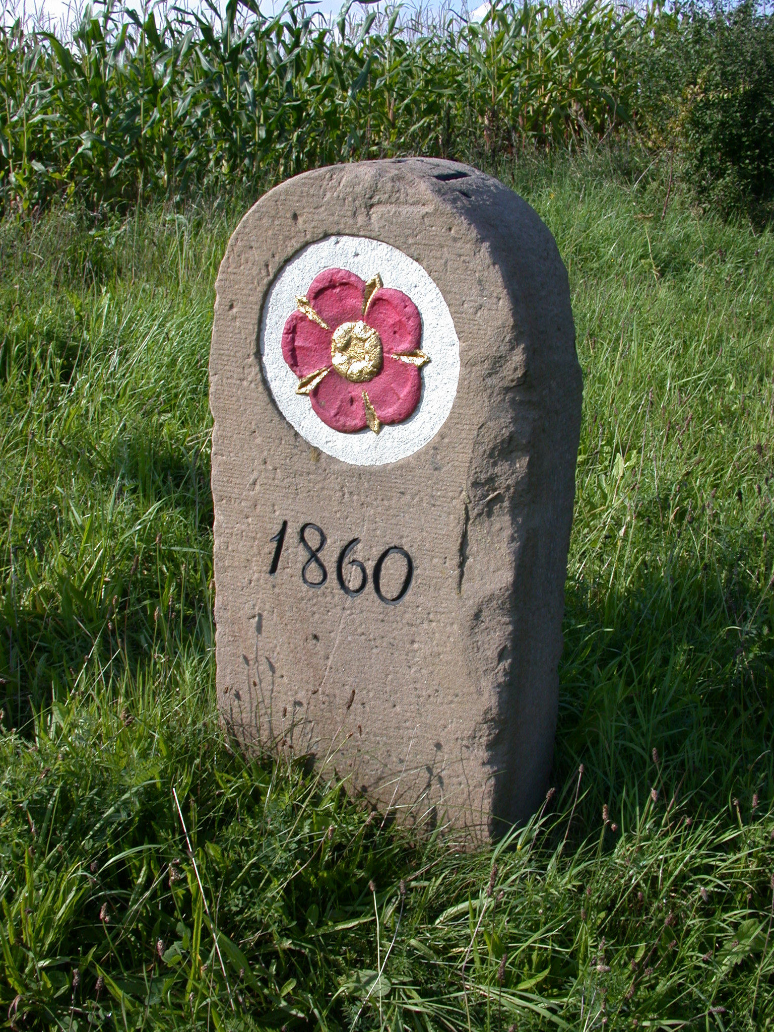 1860 boundary stone between former free states of Lippe and Prussia near Bad Salzuflen, District of Lippe, North Rhine-Westpalia, Germany.